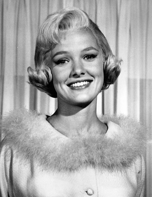 Publicity photo of actress Beverley Owen, who played the Munsters' niece, Marilyn for the first season, on the television program, The Munsters.